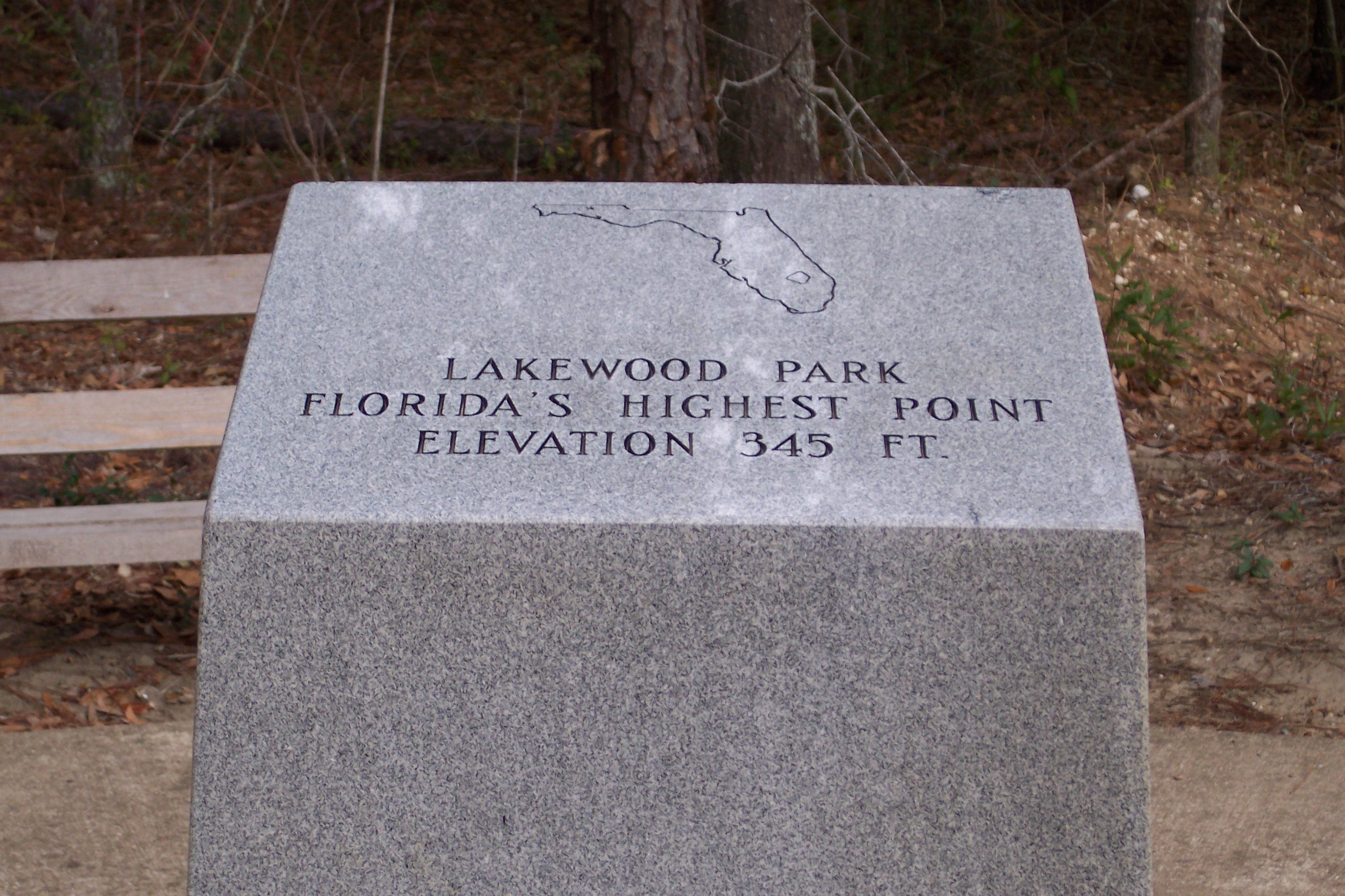 Lakewood Park Monument on Britton Hill, the Highest Point of Florida